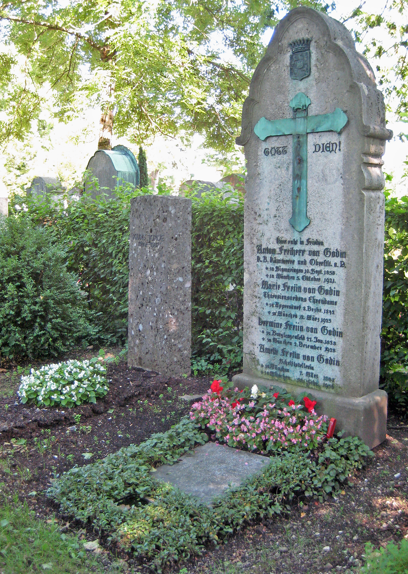 Munich, Nordfriedhof cemetery, family grave of the von Godin Family